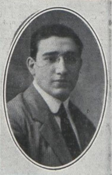 Juan Laguia Lliteras